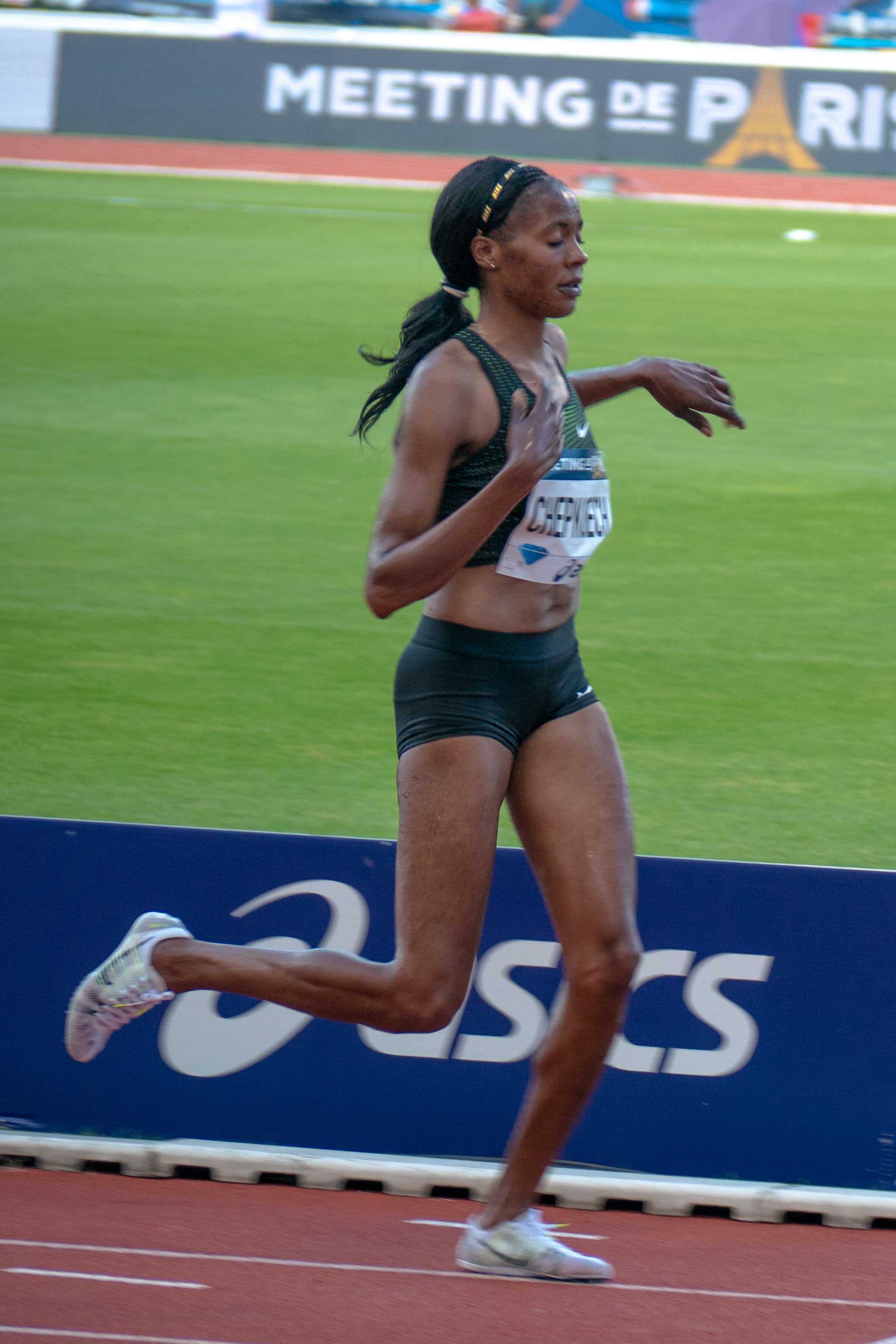 Beatrice Chepkoech